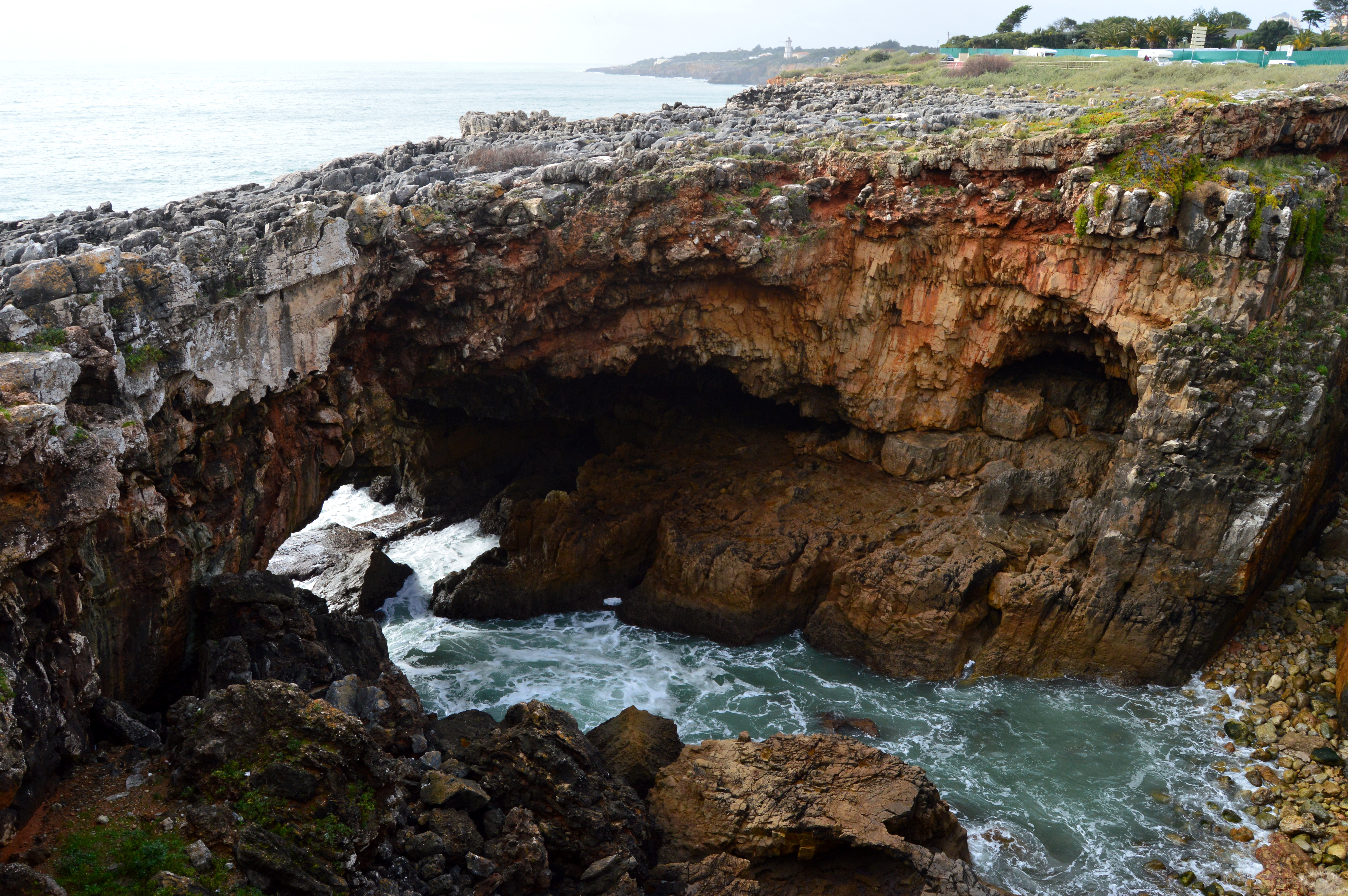 This is a photography of a Site of Community Importance in Portugal with the ID: Cascais. Natura2000 entry, EEA entry